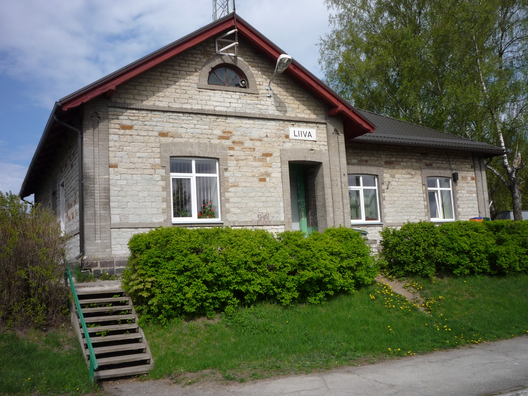 Liiva railway station building in Tallinn, Estonia.